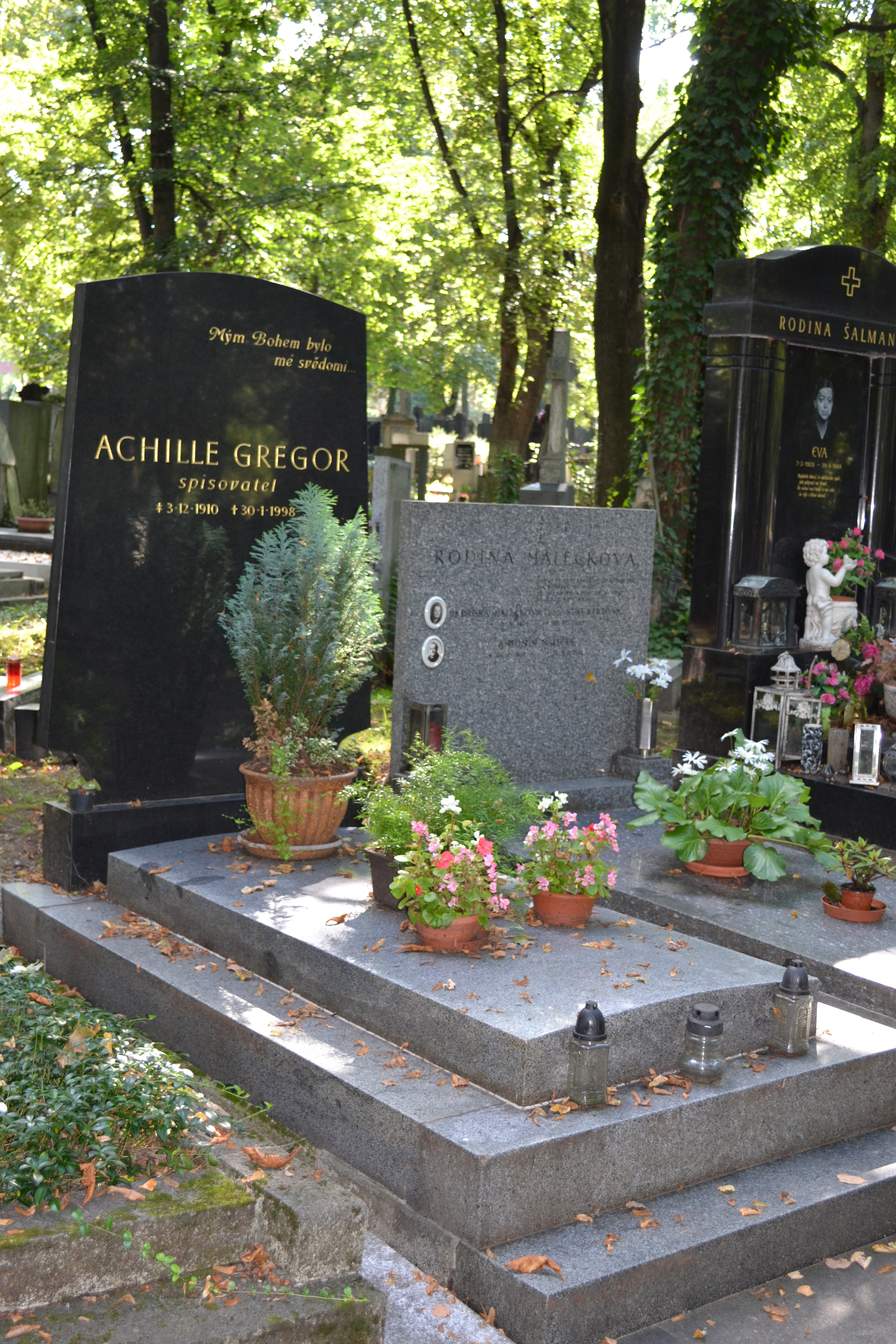 Tomb of Czech writer Achille Gregor, Olšany Cemetery, Prague